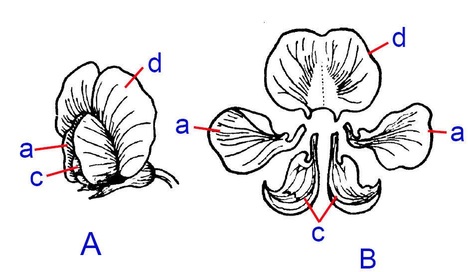 Flower of Pisum sativum